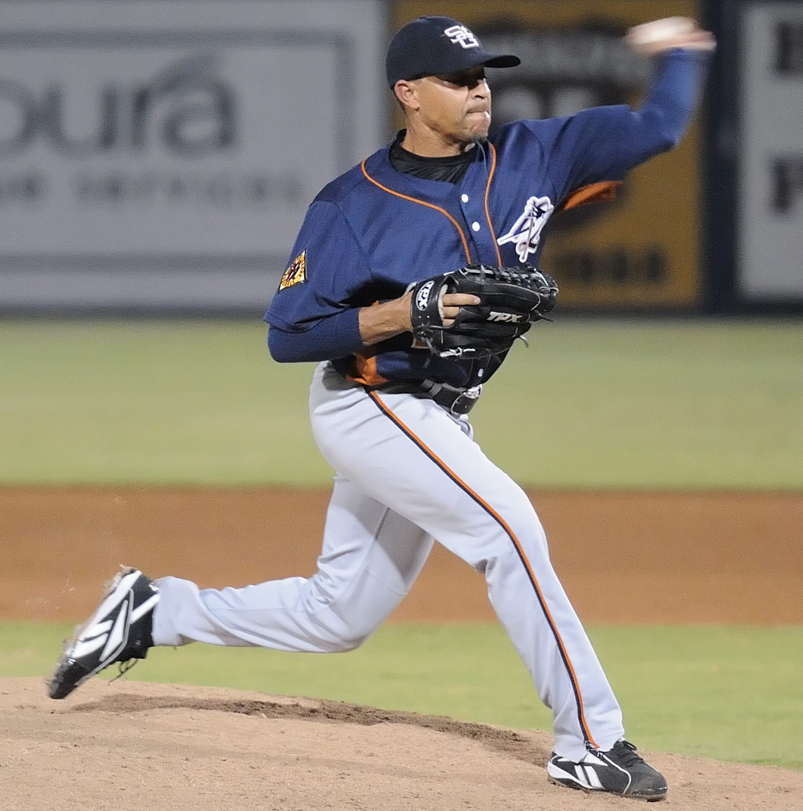 Vic Darensbourg delivers a pitch for the St. George Roadrunners during a 2009 game against the Long Beach Armada.